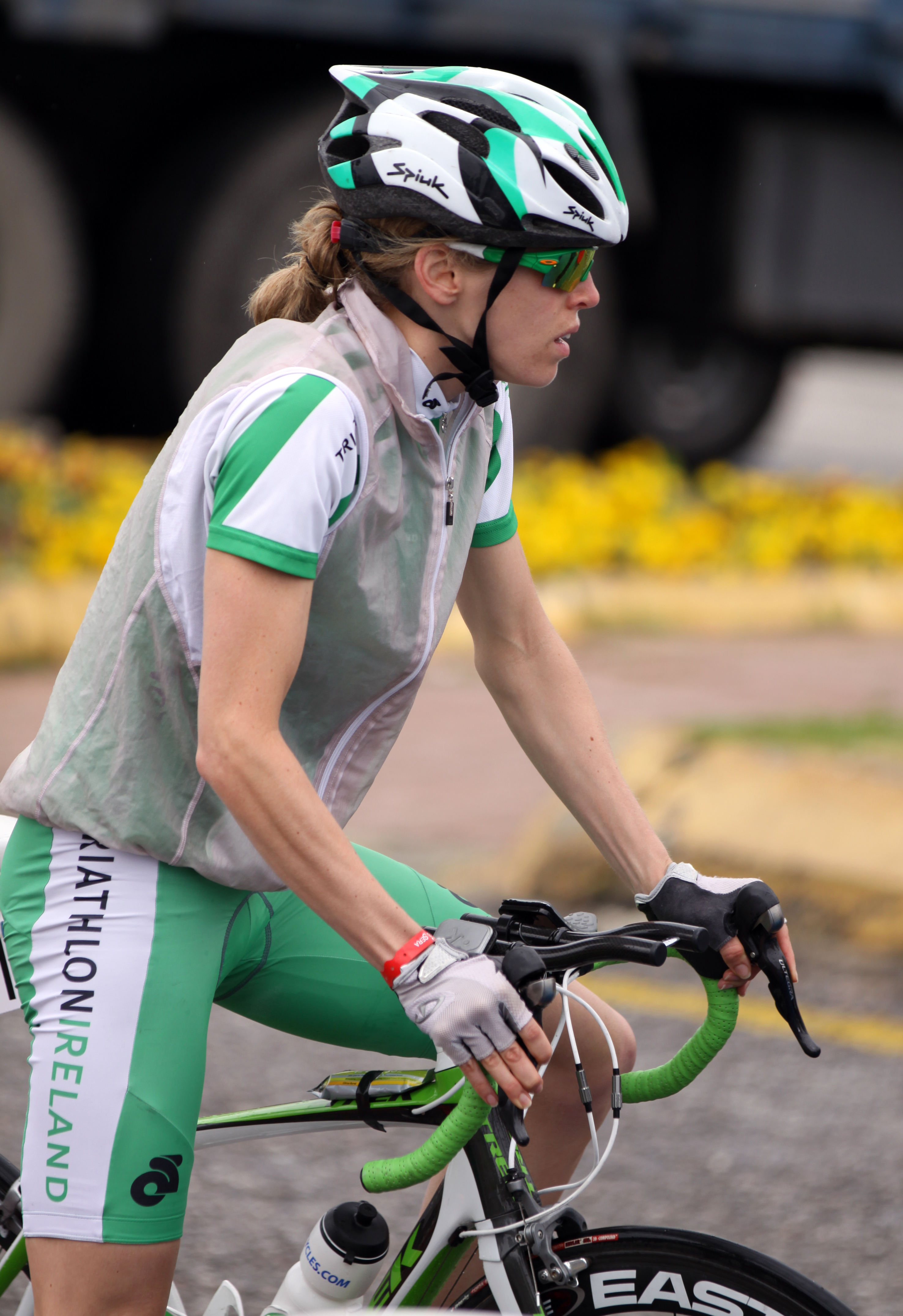 Gold medalist Aileen Morrison at the European Cup triathlon in Antalya 2011.